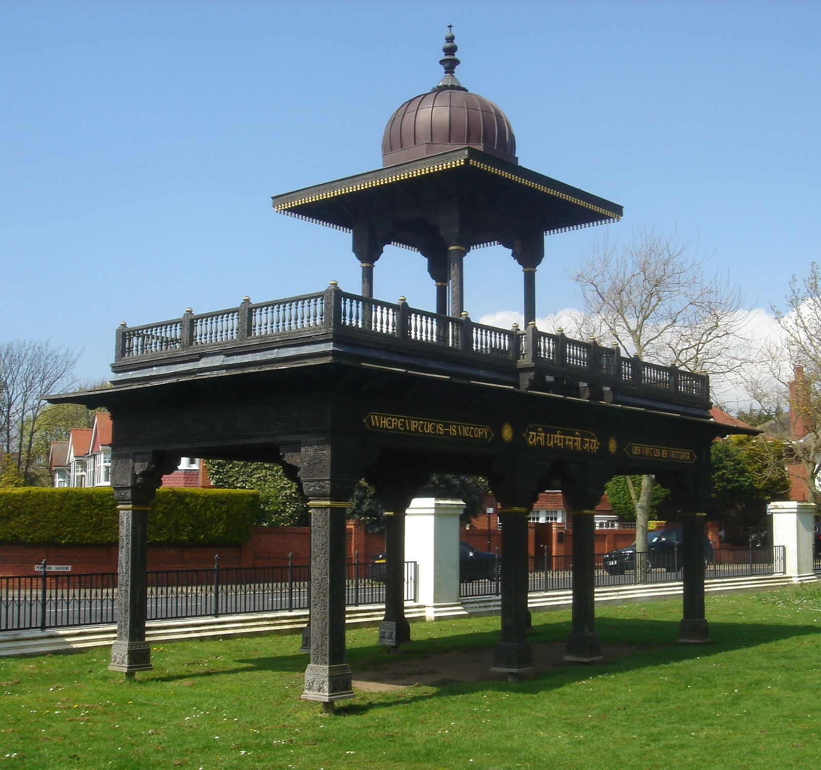 Jaipur Gate at Hove Museum and Art Gallery, New Church Road, Hove, East Sussex, England